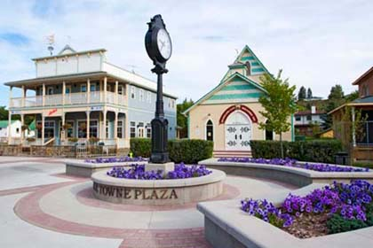 Olde Towne Plaza, downtown Okotoks, Alberta, Canada.